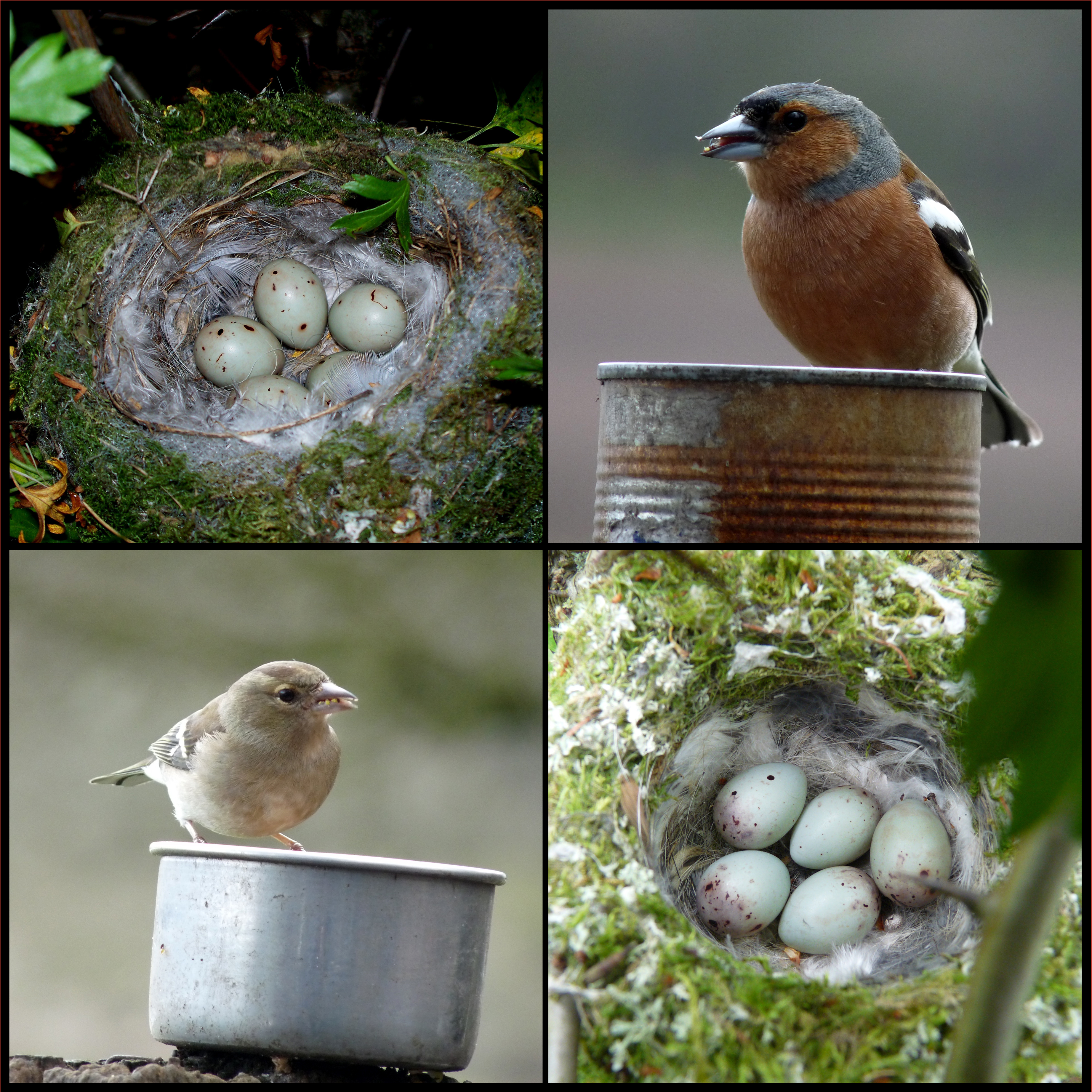 Latin name Fringilla coelebs Family Finches (Fringillidae) Overview The chaffinch is the UK's second commonest breeding bird, and is arguably the... Where to see them Around the UK in woodlands, hedgerows, fields, parks and gardens anywhere. When to see them All year round. What they eat Insects and seeds.